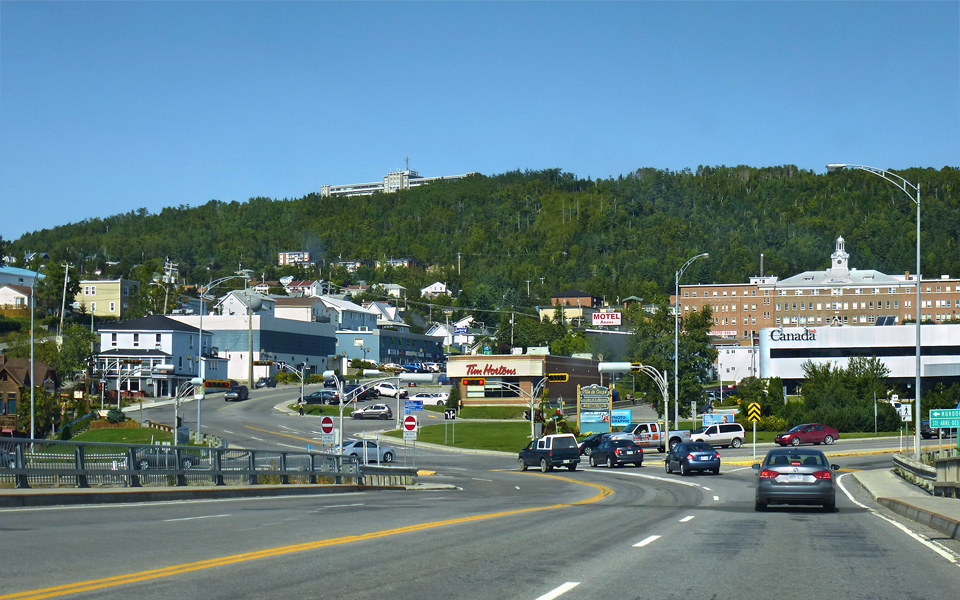 Gaspé, Gaspésie–Îles-de-la-Madeleine, Quebec, Canada. View from the bridge of Route 132.